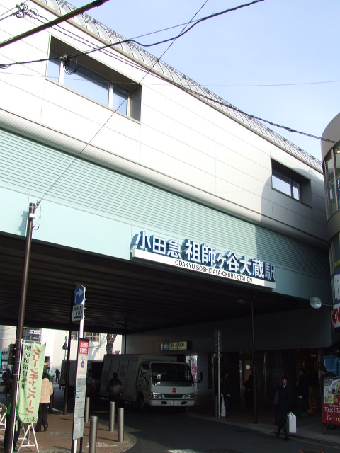 South building of Soshigayaokura station,OER-ODAWARA-LINE,Odakyu Electric Railwey,Japan